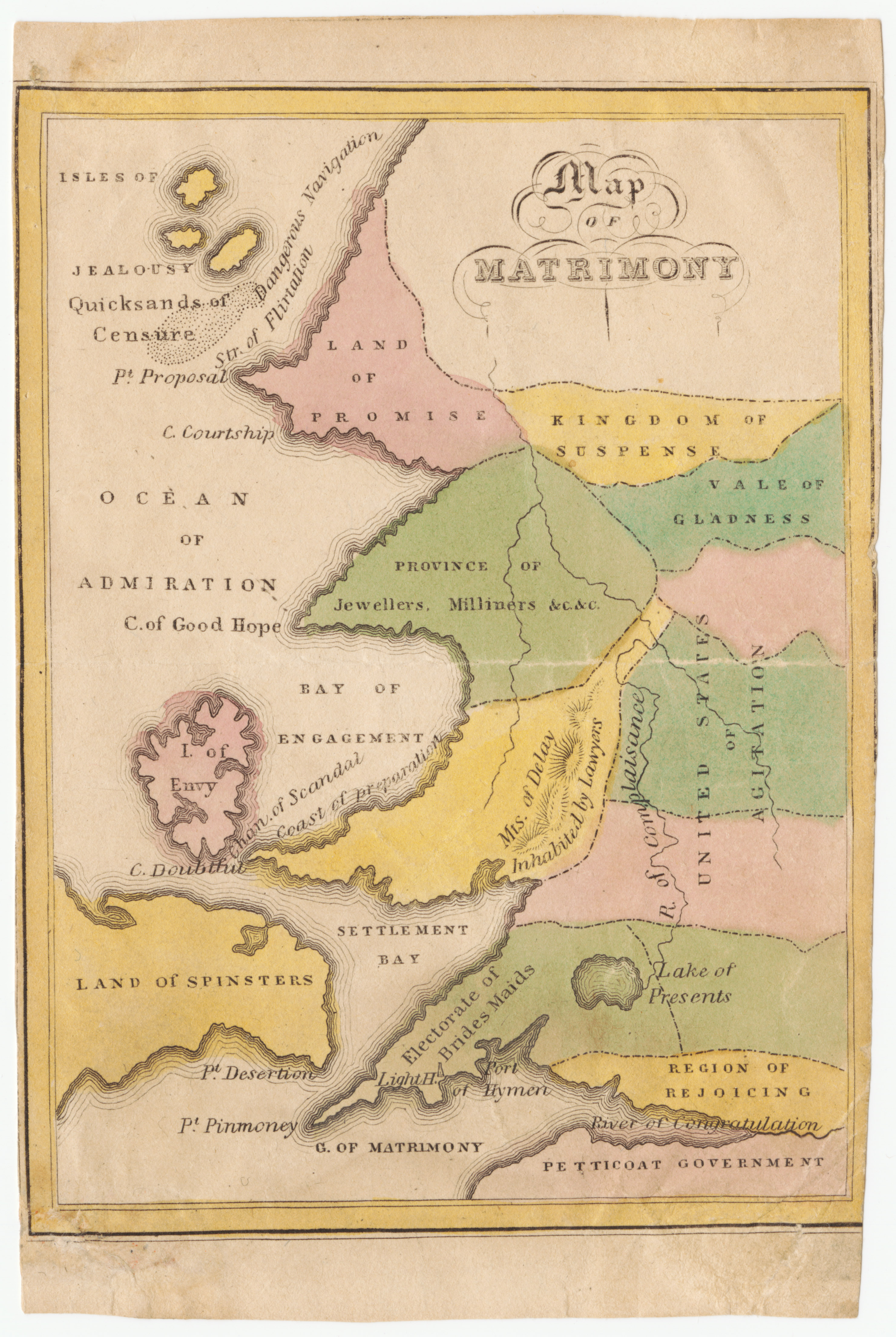 According to a handwritten attribution, 'this map was designed by a certain John de Peyster, the descendant of an influential New York family of Dutch origin that produced several government officials and senior military officers'.